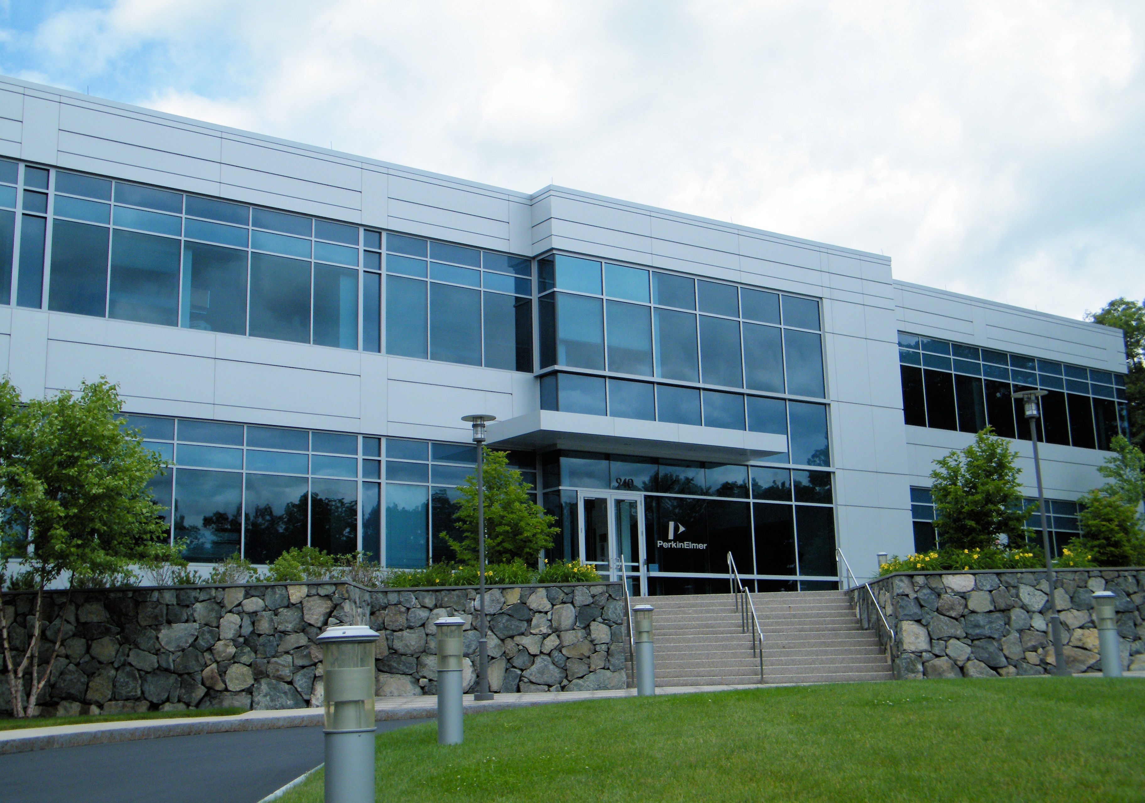 PerkinElmer headquarters in Waltham.